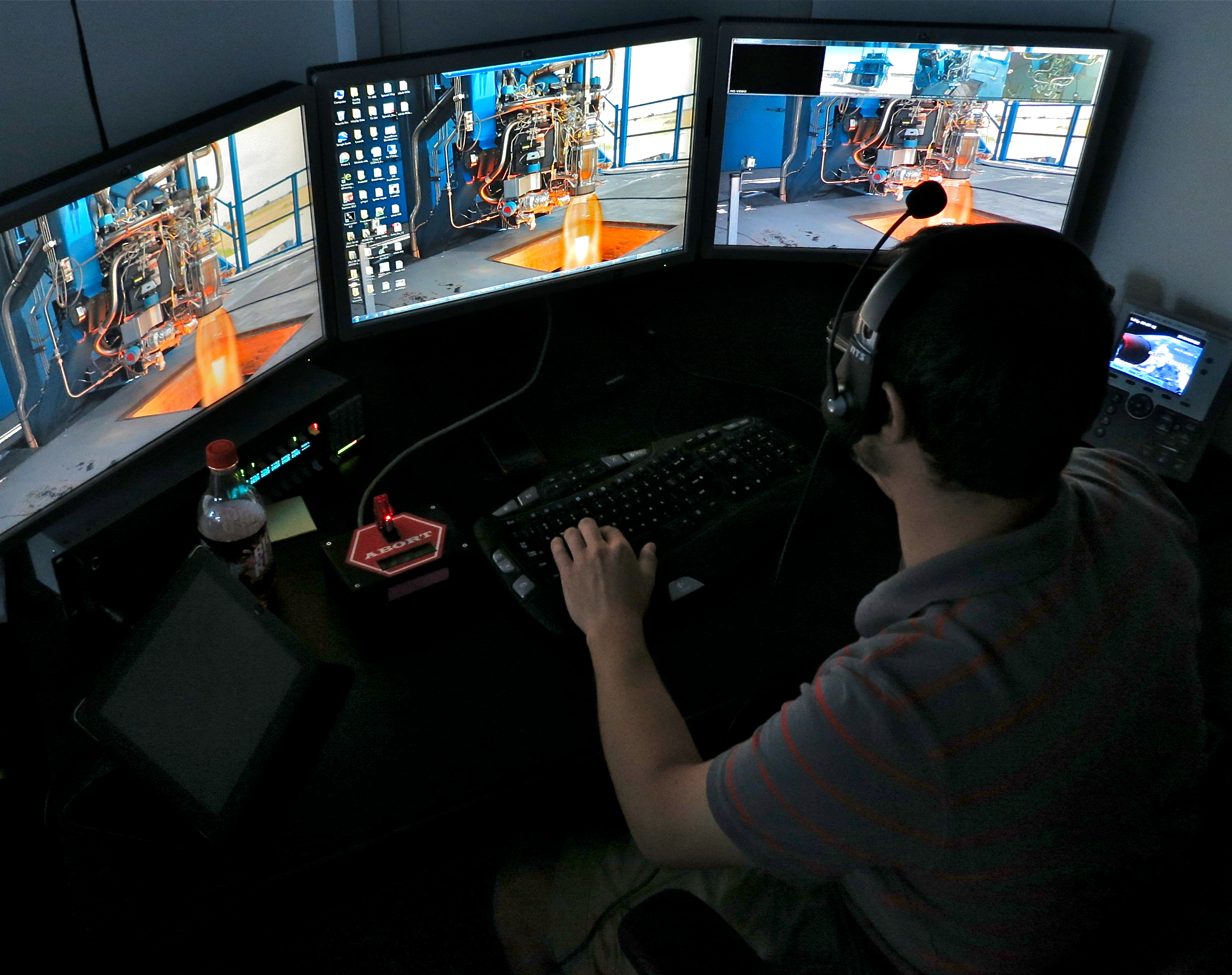 Theo McDonald in SpaceX Engine Test Bunker in McGregor, Texas